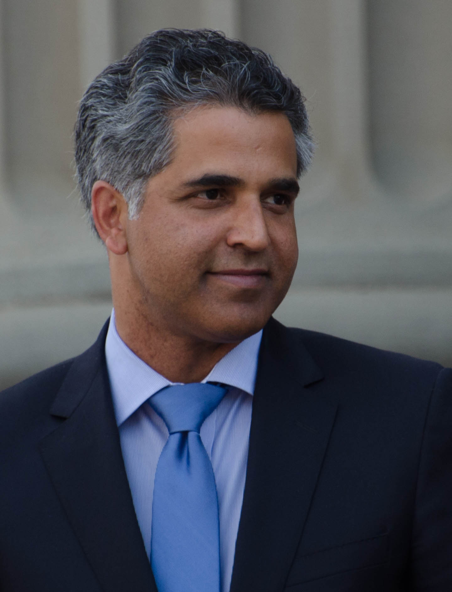 Irfan Sabir at the 2015 Alberta Premier/Cabinet swearing-in ceremony, by Connor Mah.